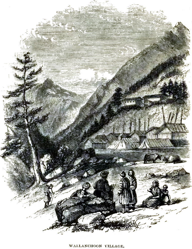 "Wallanchoon Village" illustration from the 1854 publication "Himalayan journals; or, Notes of a naturalist in Bengal, the Sikkim and Nepal Himalayas, the Khasia Mountains"